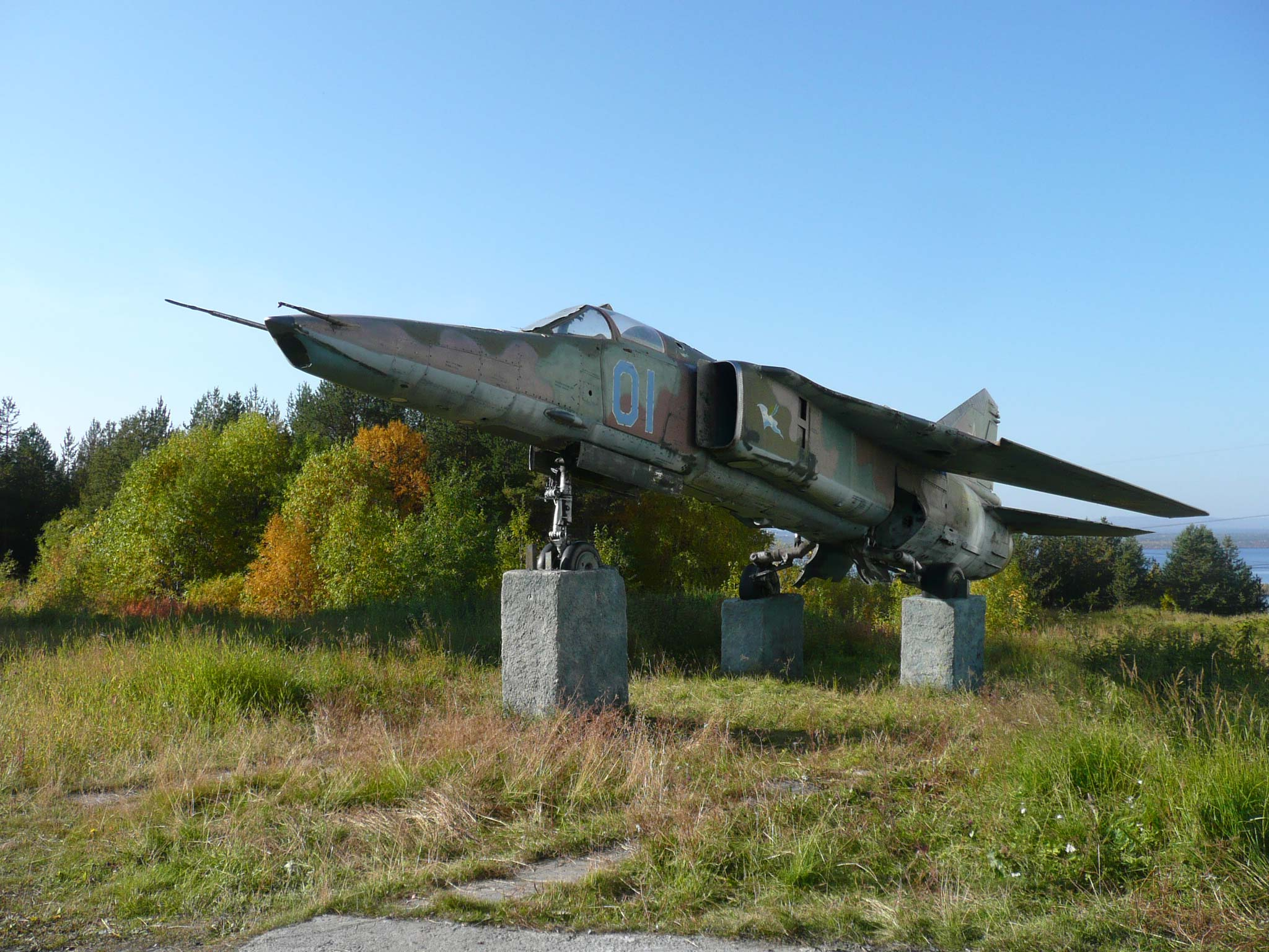 MiG-27D (factory no. 61912569140)